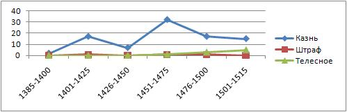 Number of the sodomy cases in Bruges (1380-1515). Based on the data from the paper by Marc Boone. "State power and illicit sexuality: the persecution of sodomy in late medieval Bruges". Journal of Medieval History, Vol. 22, No. 2, pp. 135 - 153, 1996.